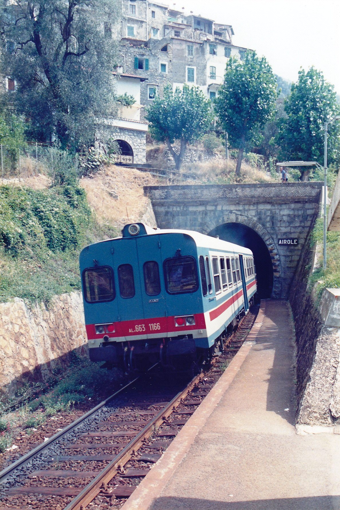 Airole train stop